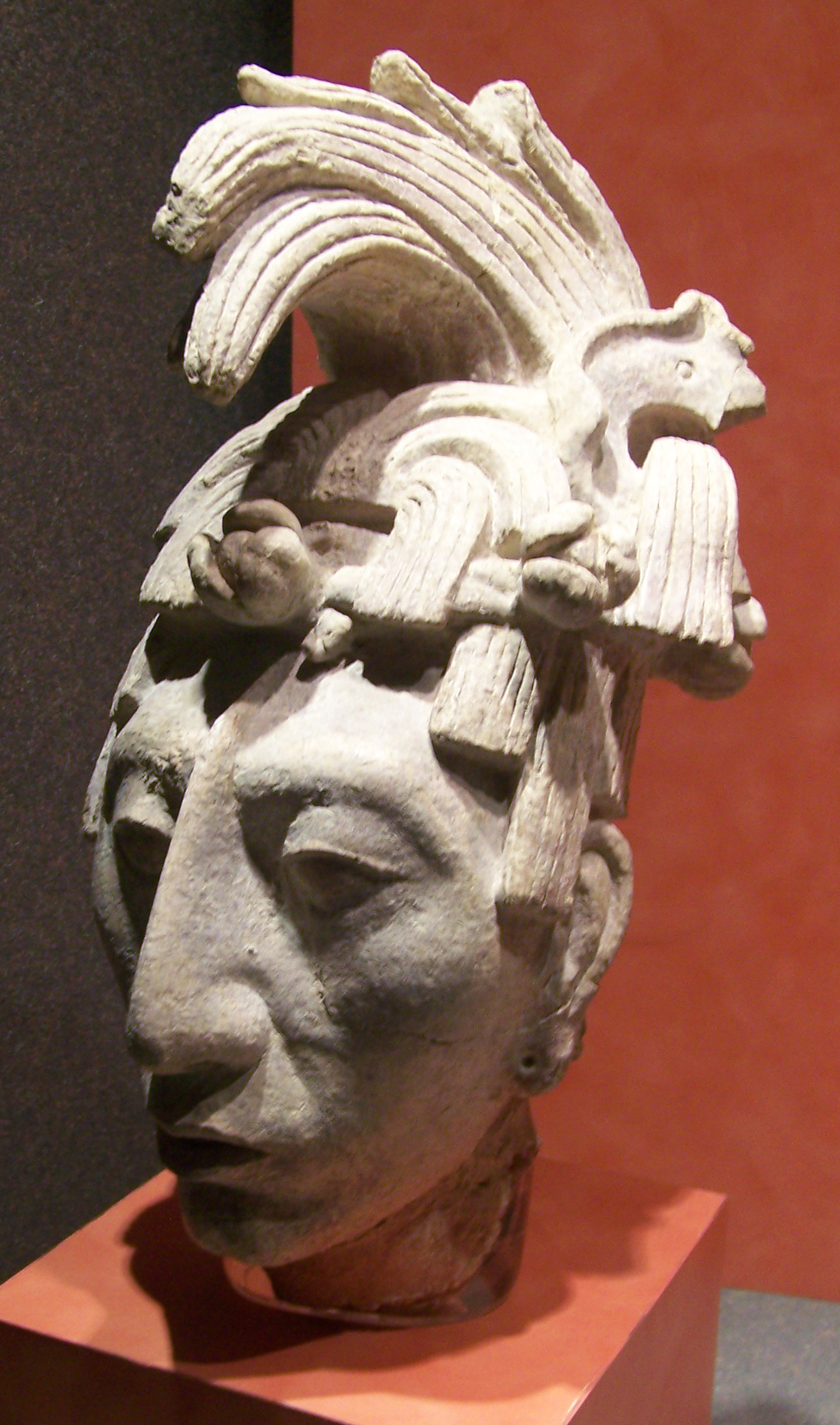 Stucco head of K'inich Janaab Pakal I ( 603-683 AD ), king of Palenque. National Museum of Anthropology, Mexico-City.